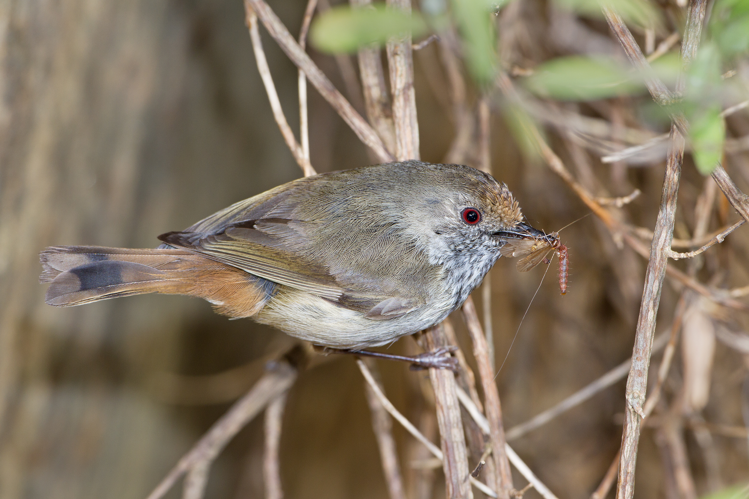 Brown Thornbill (Acanthiza pusilla), Austin's Ferry, Tasmania, Australia